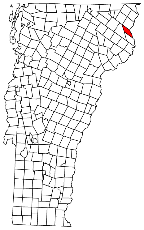 Map of Vermont towns with Brunswick highlighted